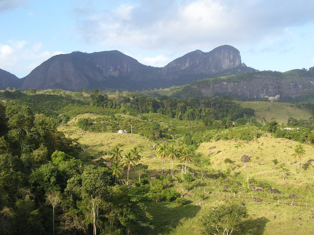 View of Penha Mountain, in Cachoeiro de Itapemerim, Espírito Santo, Brazil.